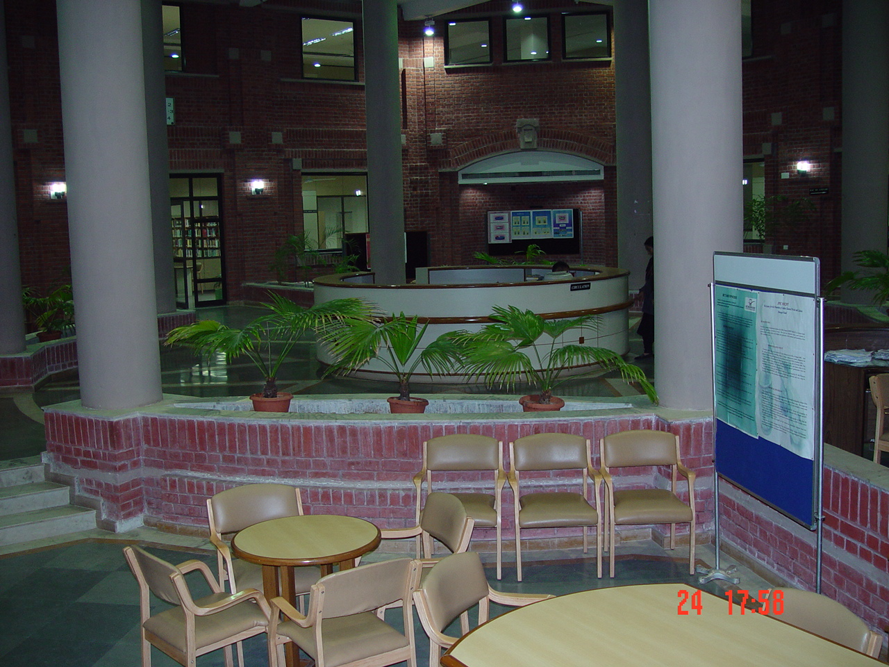 Gyanodaya - Library of IIML